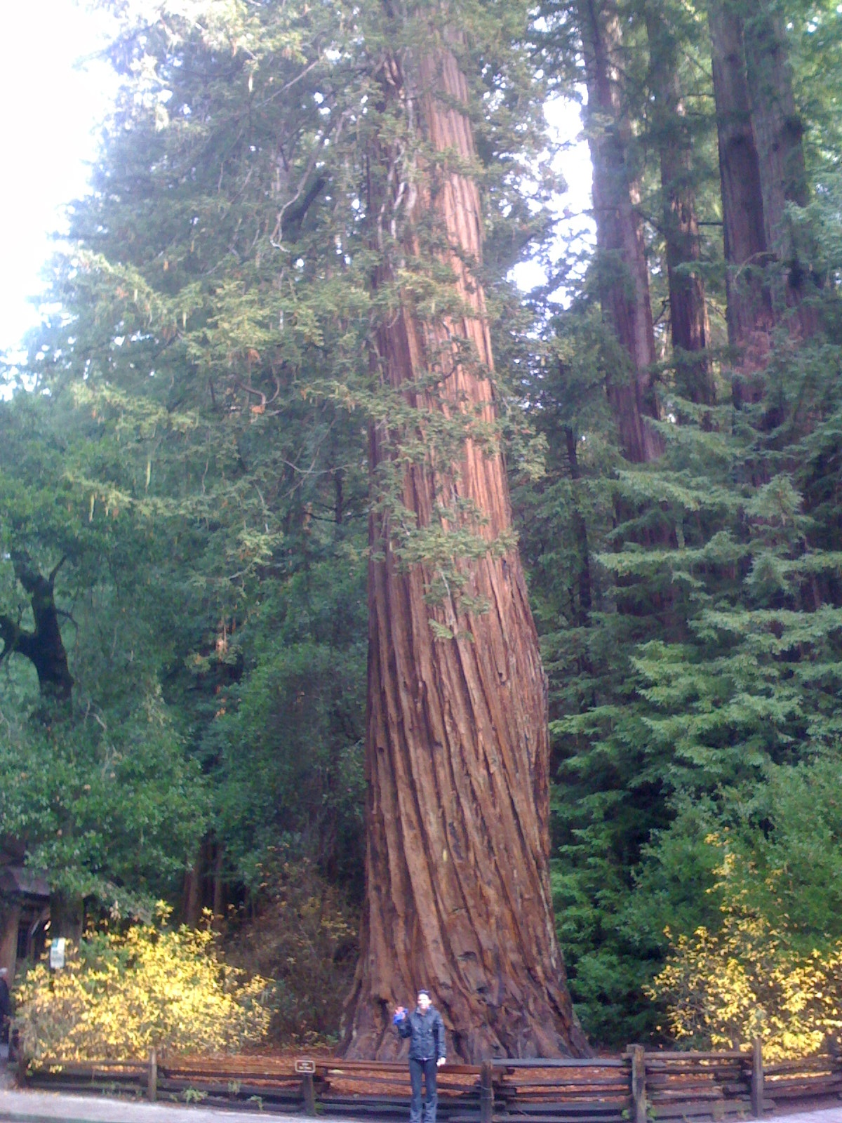 Redwood Sequoia sempervirensOrginal description: One of my favorite redwoods that I've seen so far makes the cut for day three's photo for my 365 photos project. This massive tree is located near the parking lot at the Big Basin Redwoods State Park located on the San Francisco peninsula in California. You can see Erin at the base of the tree to get a sense as to how huge this tree actually is. I stopped into the headquarters to ask how old the tree is and they estimate that it is somewhere between 1500-2000 years old. I also learned that redwoods don't root much deeper than 5-7 feet, but instead spread their roots out sideways and lock their roots with other redwoods. Essentially the trees work together to hold each other up, which is a good thing as these trees are 200-300 feet tall!